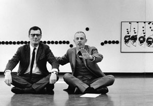 Jan Runnquist and Carl-Frederik Reuterswärd